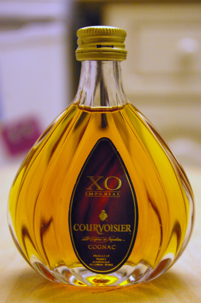 Courvoisier mini bottle